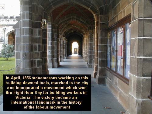 Melbourne University site where building workers were the first organised workers in the world to win an 8 hour day. Text is from a Plaque on the wall. Photo by Takver and released under GFDL.